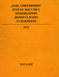 Cover of the catalog of Exhibition of works by Leningrad artists of 1972